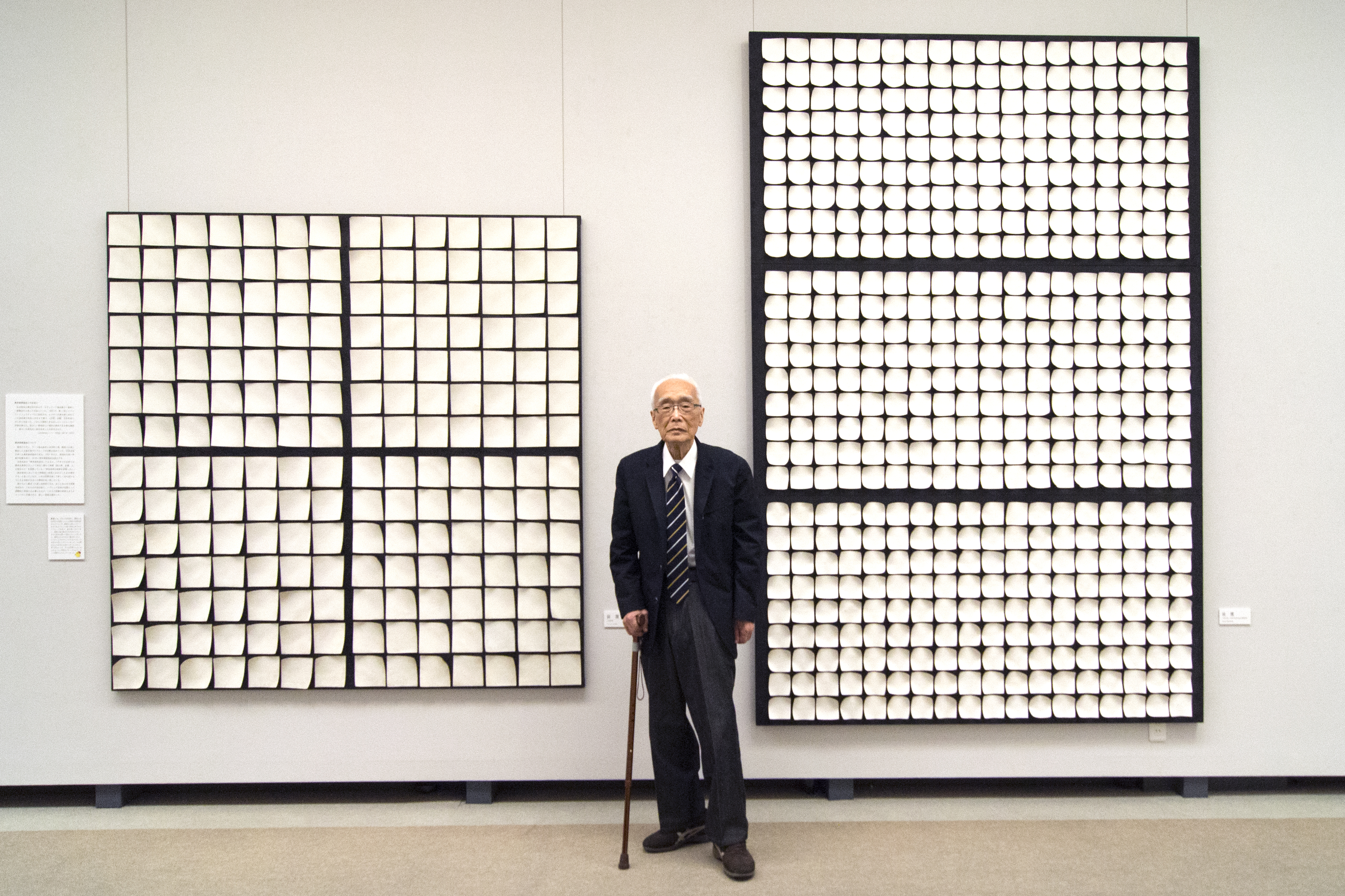 Motonao Takasaki